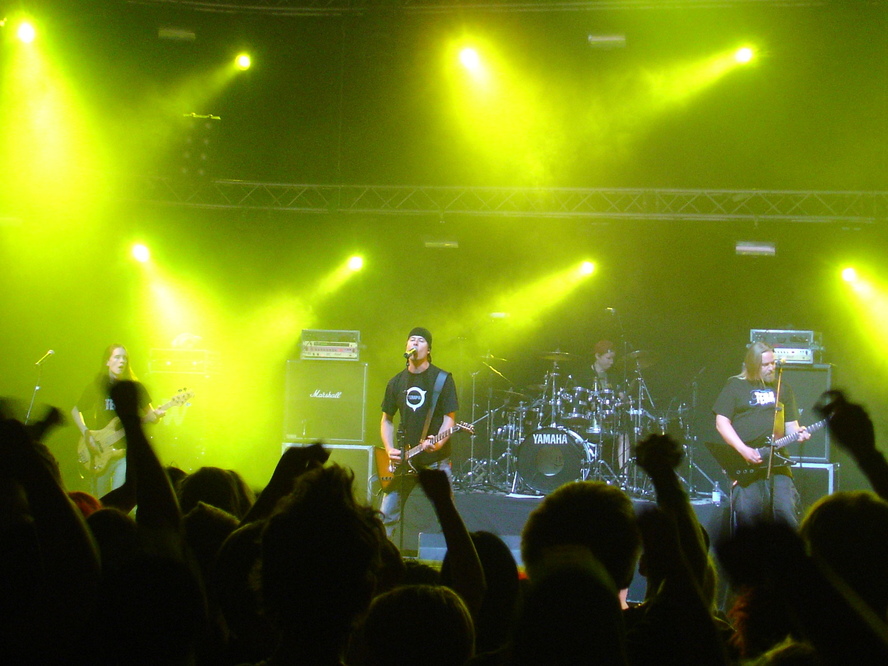 Tera in Ristirock 2007